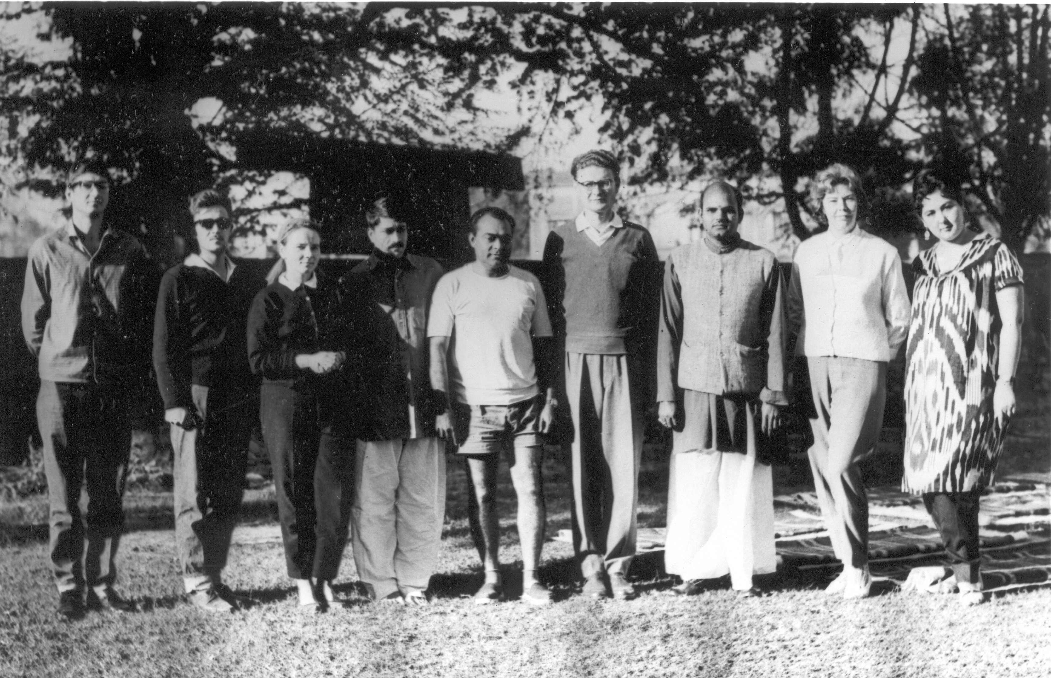 Lucknow. The group of pupils with Gurus. From left to right: Dmitri, Alexander, Julia, Chanan Sinh (pupils), Mohan Lau (trainer), Anatoly Nikolayevich Zubkov, Ram Kumar Sharma (Guru), Rose Vasilievna Zubkova, Hursan (pupil).